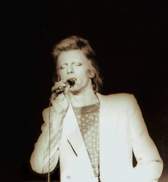 05 July 1974 - Charlotte Park Centre, North Carolina